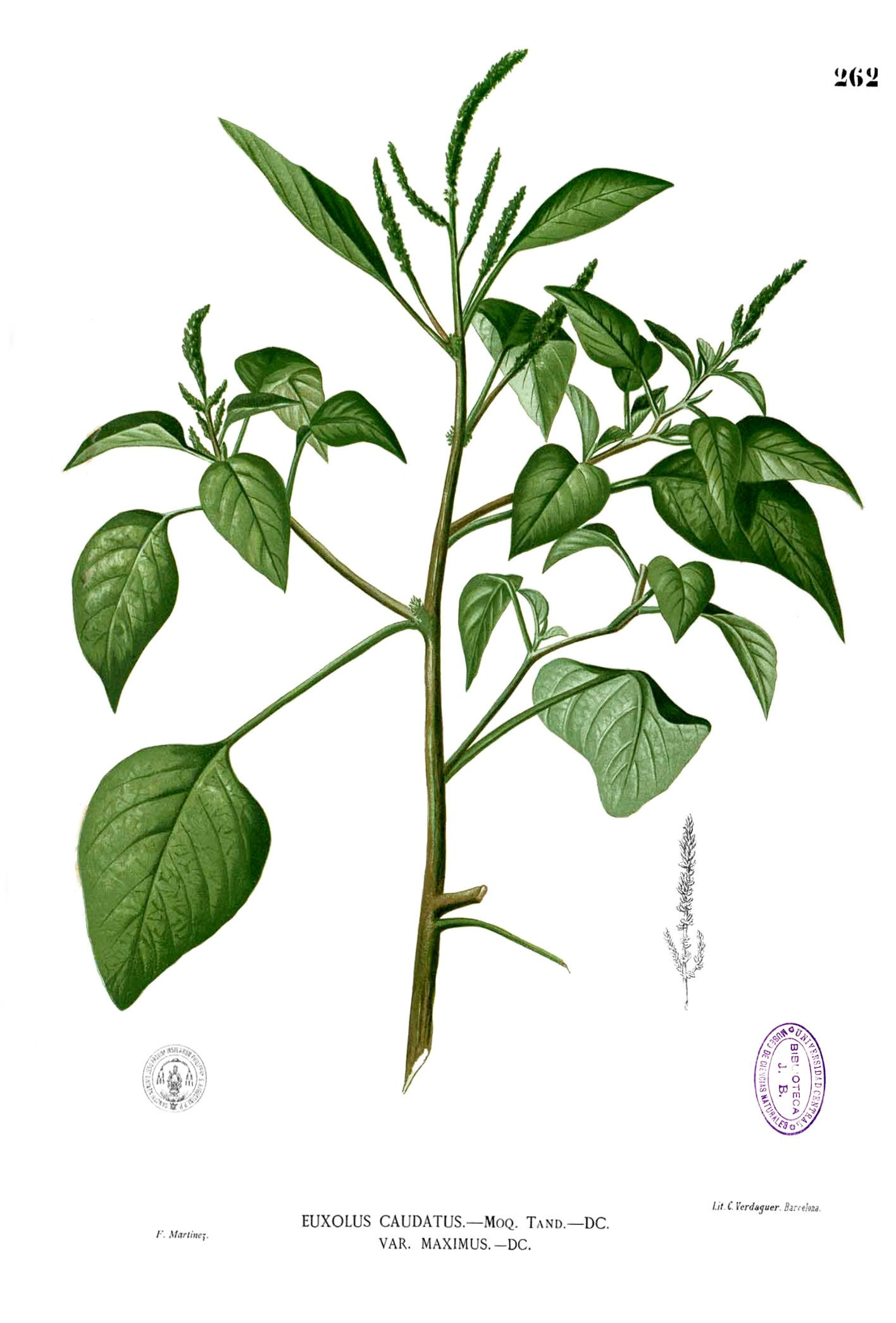 Plate from book